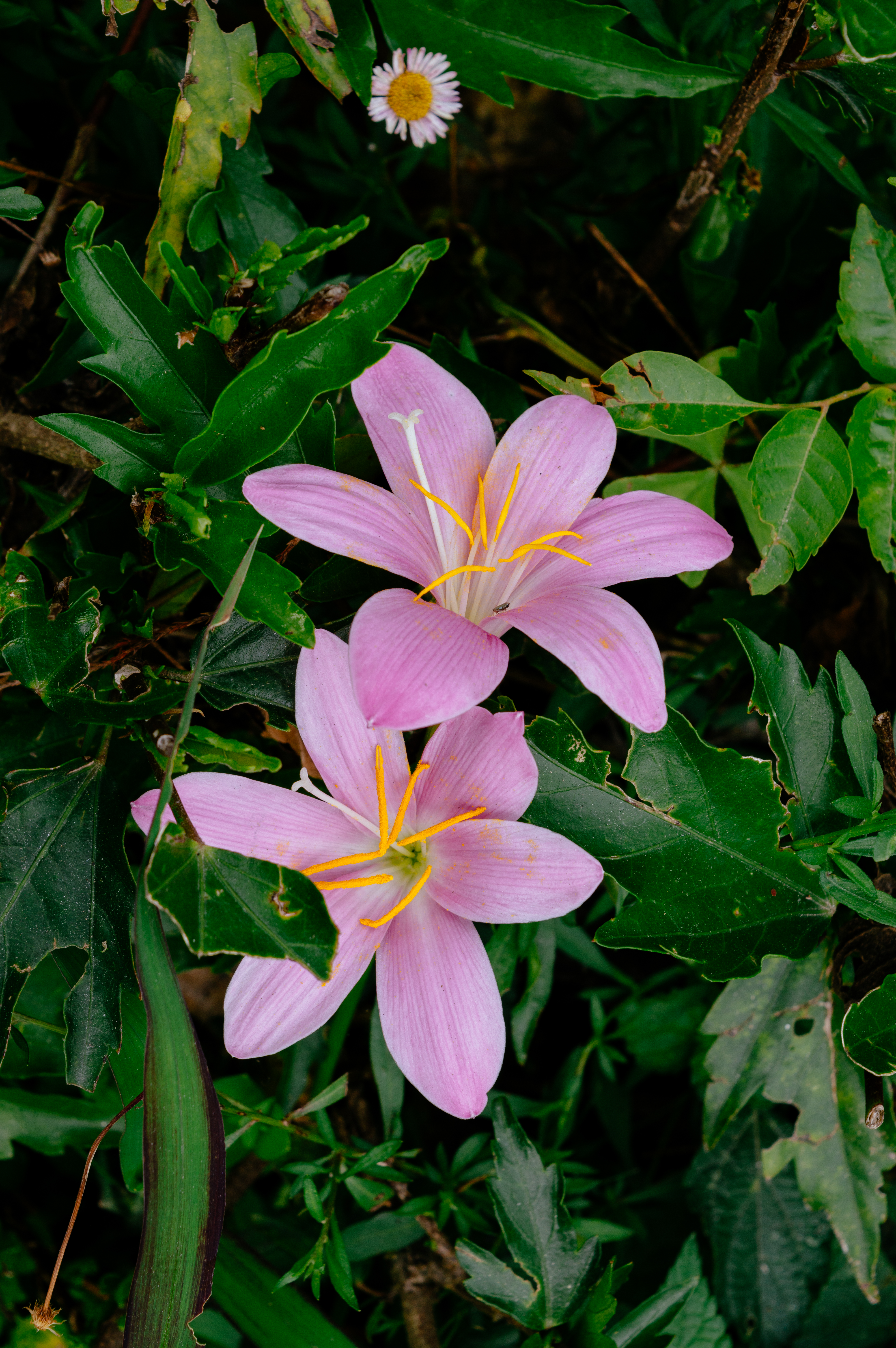 Zephyranthes carinata, commonly known as the rosepink zephyr lily or pink rain lily, is a perennial flowering plant native to Mexico, Colombia and Central America. It is also widely cultivated as an ornamental and naturalized in the West Indies, Peru, Argentina, Brazil, the southeastern United States from Texas to Florida, Zimbabwe, South Africa, China, Korea, the Ryukyu Islands, Assam, Nepal, Bhutan, Sri Lanka, Solomon Islands, Queensland, Society Islands, Kiribati, and Caroline Islands. Zephyranthes carinata has large bright pink flowers, around 10 cm (4 in), and green strap-like leaves. They are found naturally in moist, open areas, often near woodlands. Like other rain lilies, their common name refers to their habit of blooming soon after a heavy rainfall. They are widely grown in gardens as annuals and as container plants, although they will overwinter in warm climates. Zephyranthes carinata are often incorrectly referred to as Zephyranthes grandiflora, especially in horticulture.